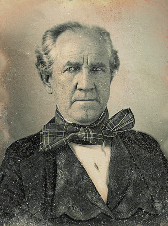 Portrait photograph of Sam Houston from a 1/6th plate daguerreotype